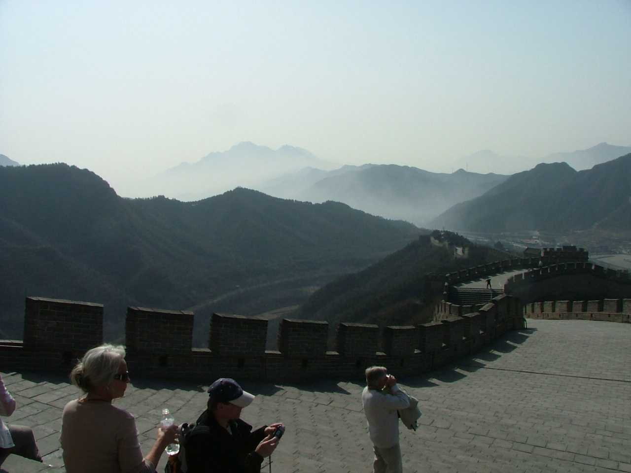 View from the Great Wall: Smog coming out off Beijing to the mountains